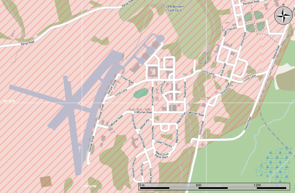 Airfield and golf course at CFB Borden. Made using the Open Street Map in Marble program. Cropped with GIMP.